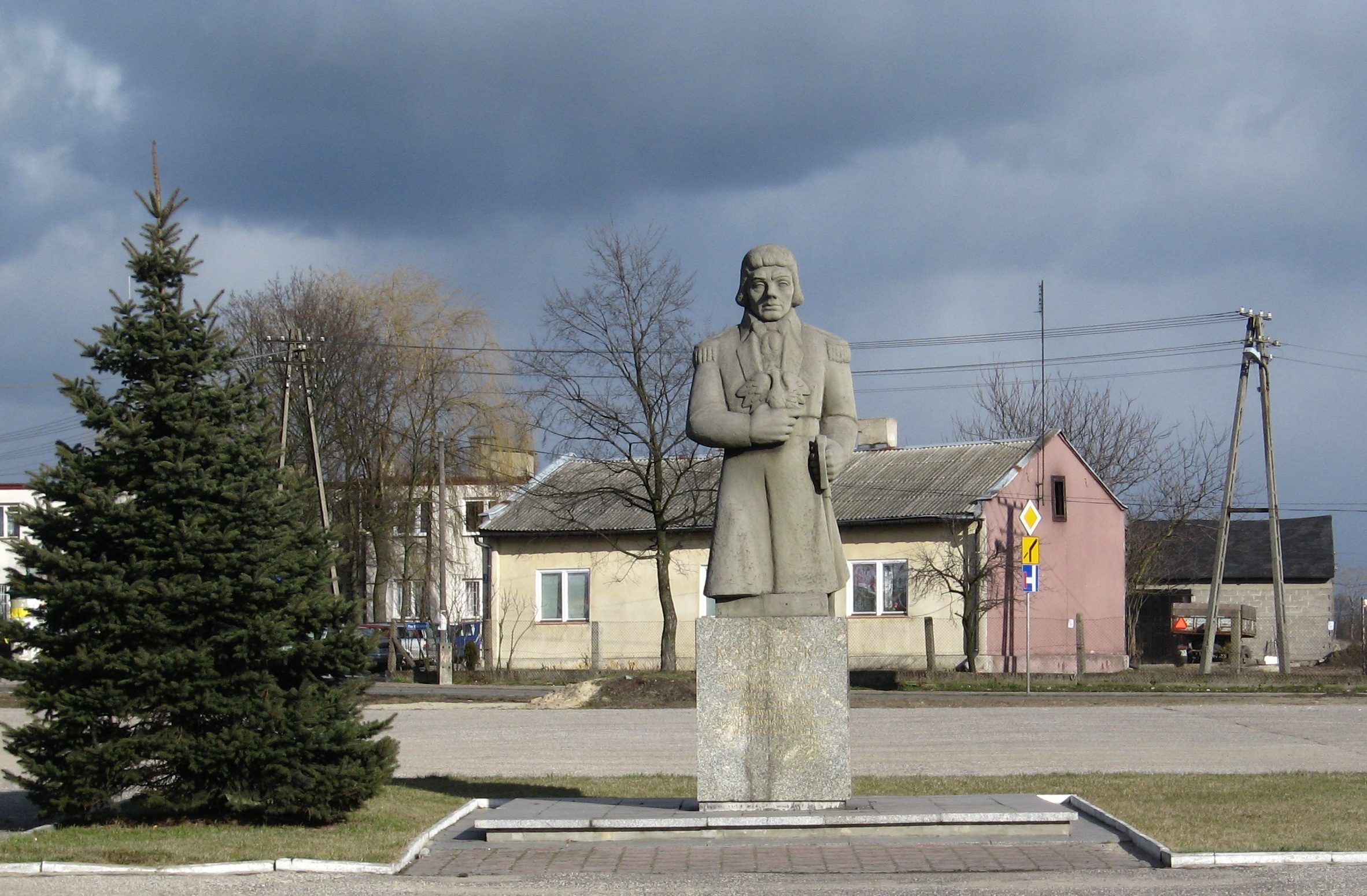 Monument of Tadeusz Kościuszko in Ujazd, Powiat Tomaszowski, pl. Kościuszki.